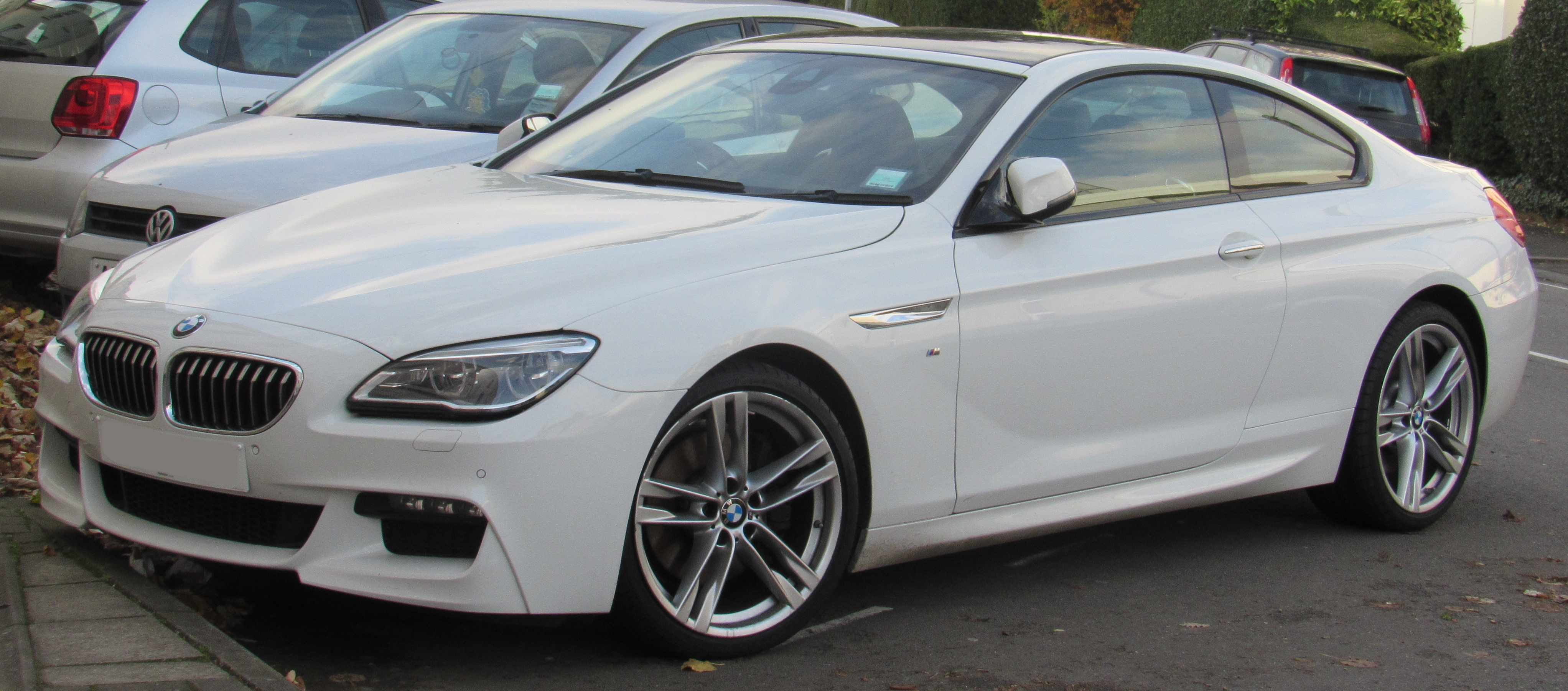 2015 BMW 640d Gran Coupe M Sport Automatic facelift 3.0 Taken in Leamington Spa